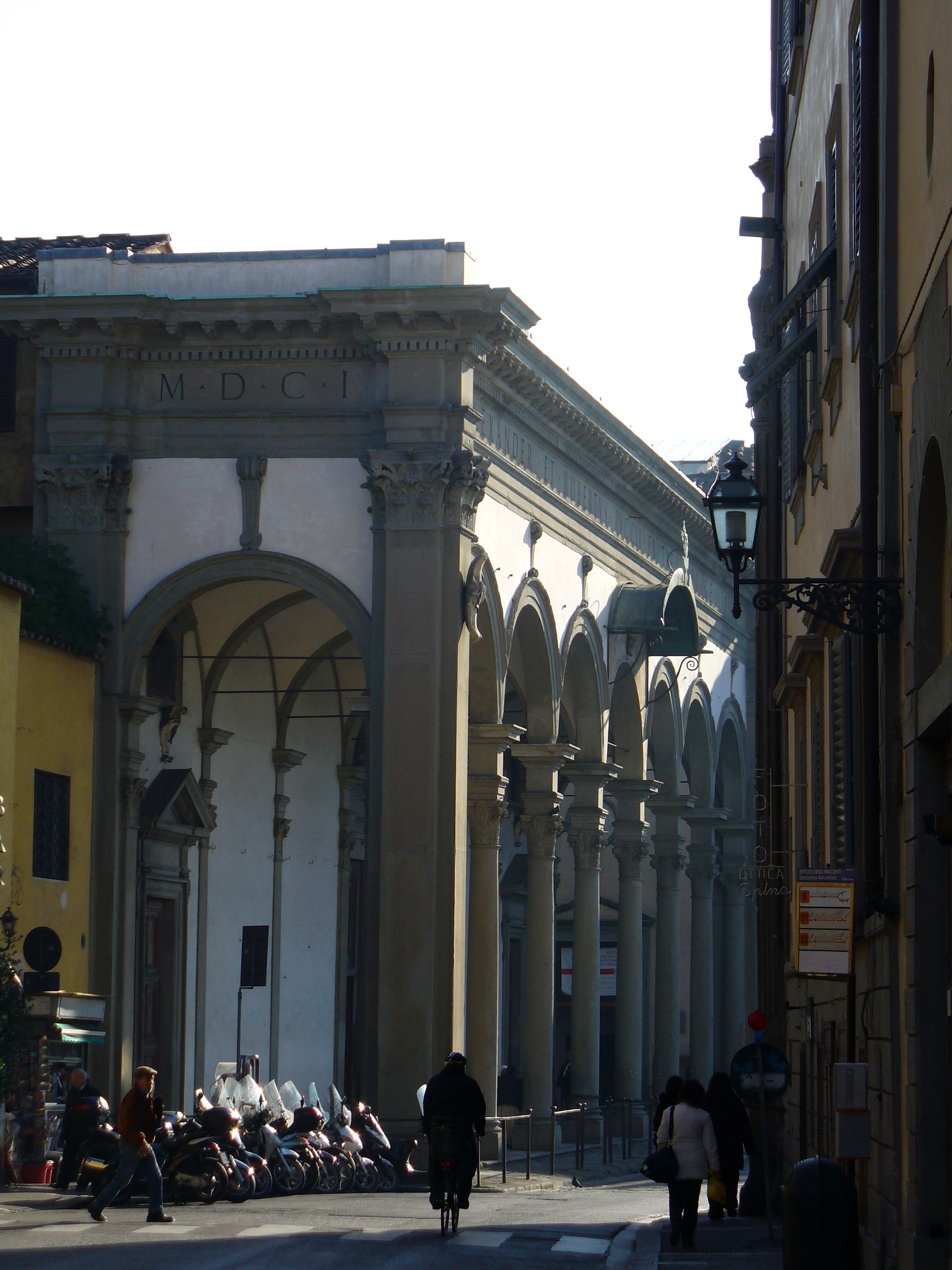 Piazza Santissima Annunziata